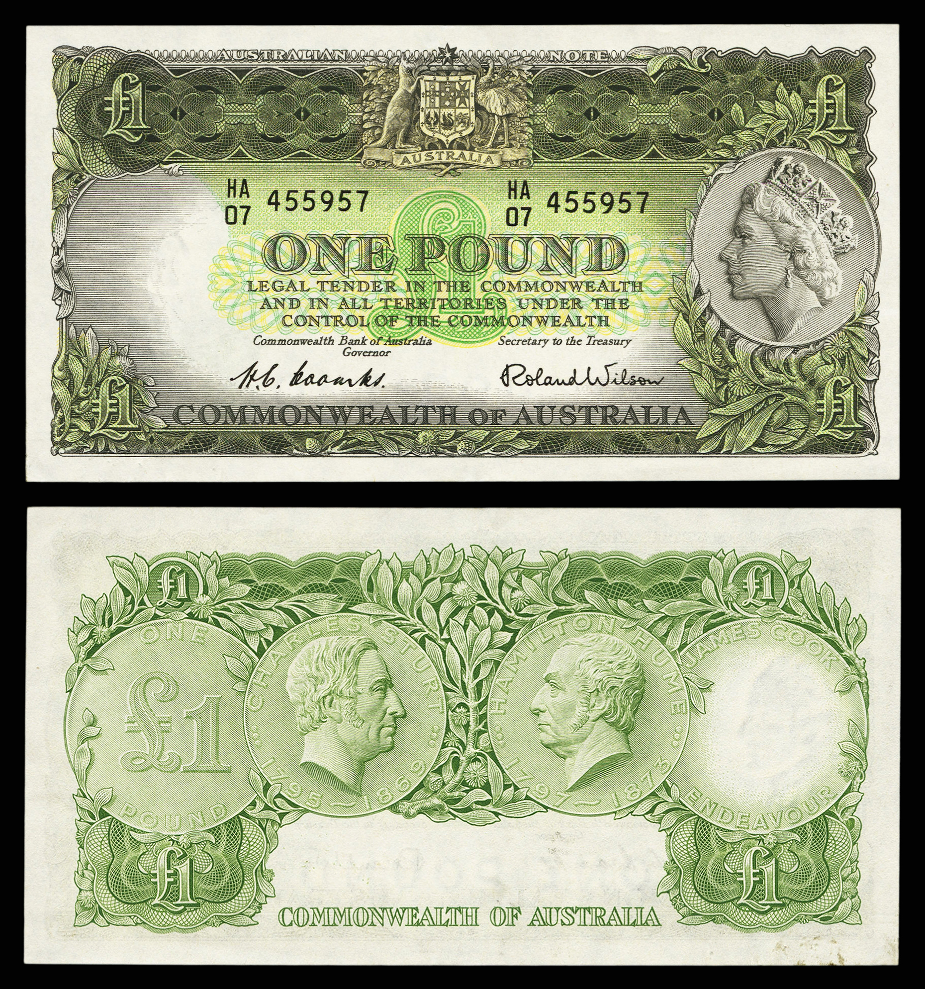 Commonwealth Bank of Australia one-pound note (1952)(3519-15039)